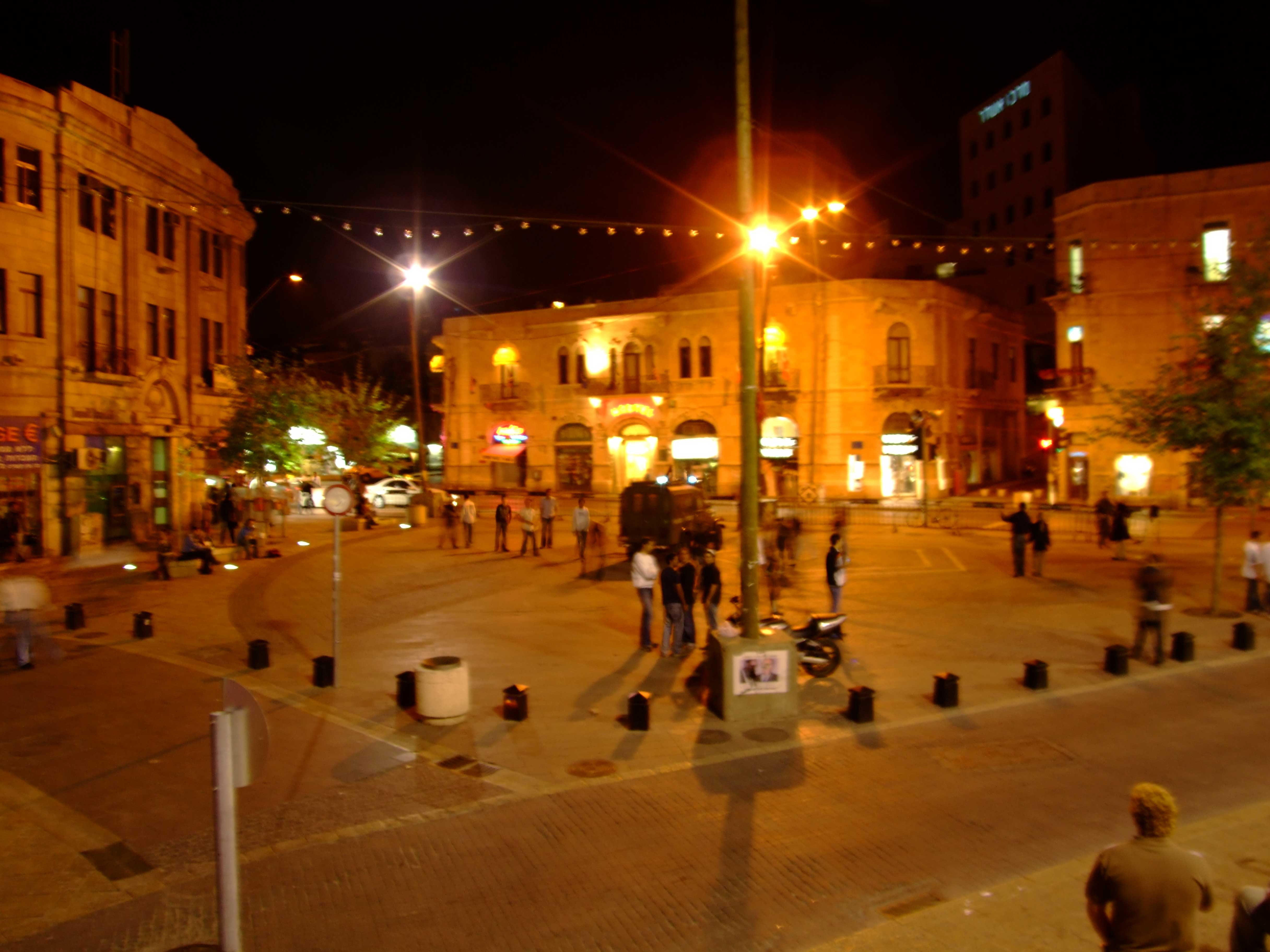 zion_squre_jerusalem_mozesy